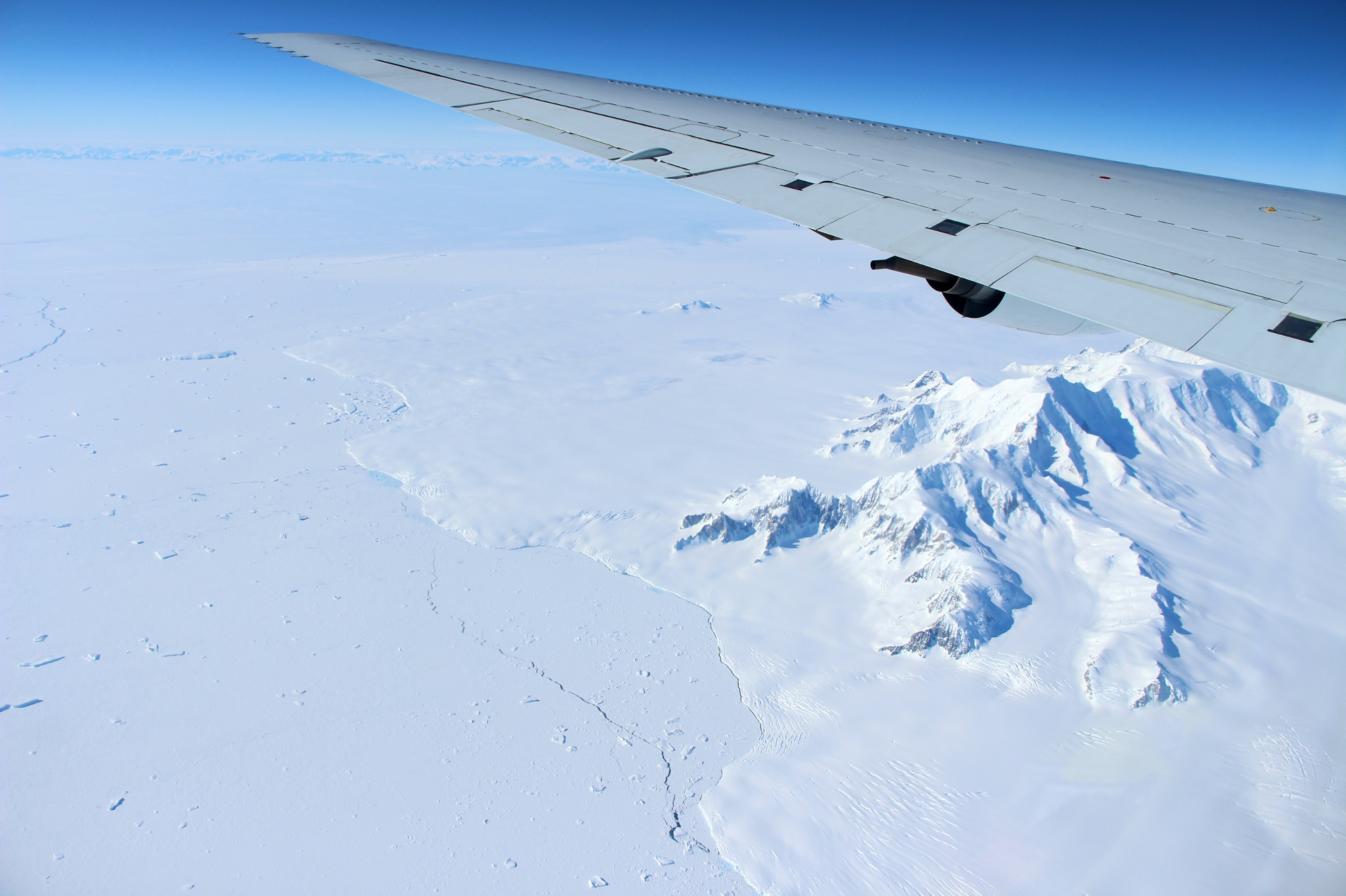 The mountains of northern Alexander Island passing under the left wing of tOperation IceBridge's DC-8. Photo taken during IceBridge's "George VI 02" mission on Oct. 14, 2016. (NASA/John Sonntag)